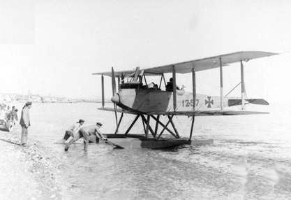 A German Friedrichshafen FF.33L seaplane (serial 1257) pushing off at Beirut, Ottoman Empire.